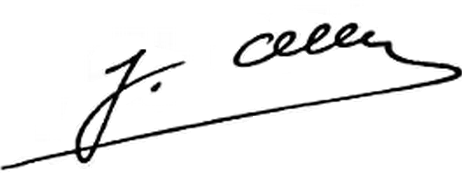 Signature of Josep Oller i Roca (1839-1922)